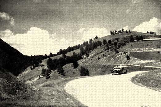 The road to Ciucea Pass (King's Pass) in 1940